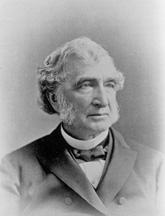 Justin Smith Morrill.